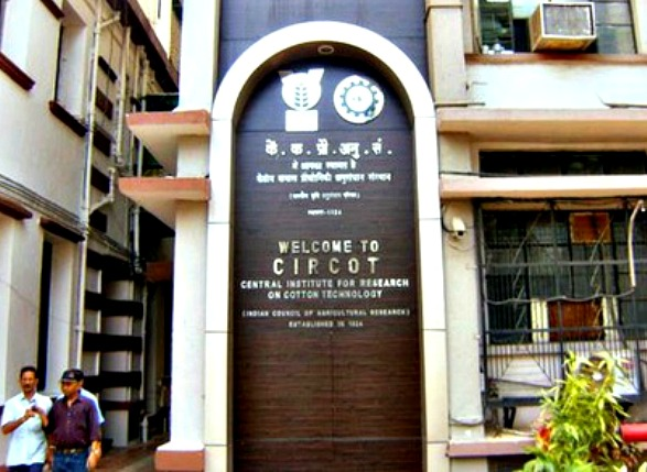 CICOT has the most update Textile testing facilities